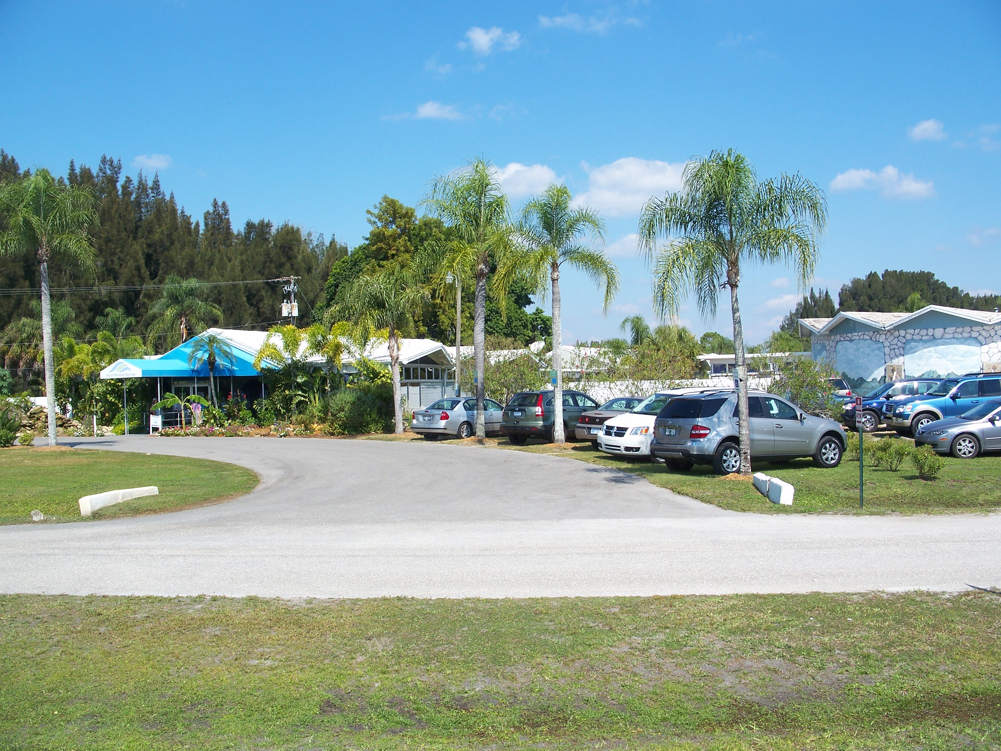 North Port, Florida: Warm Mineral Springs